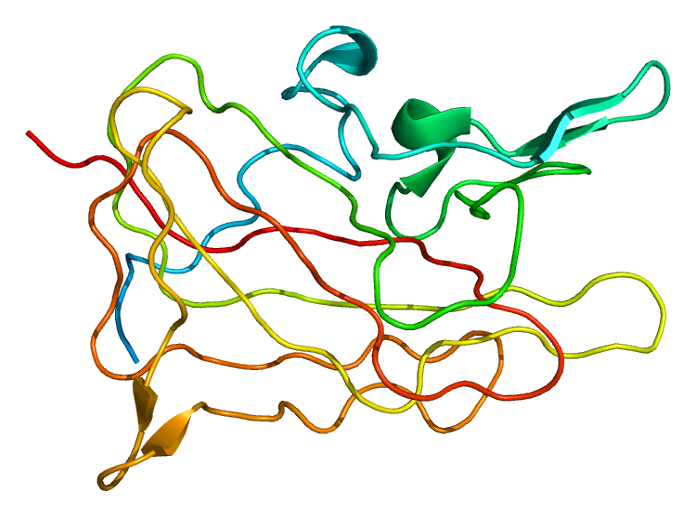 Structure of the F8 protein. Based on PyMOL rendering of PDB 1d7p.